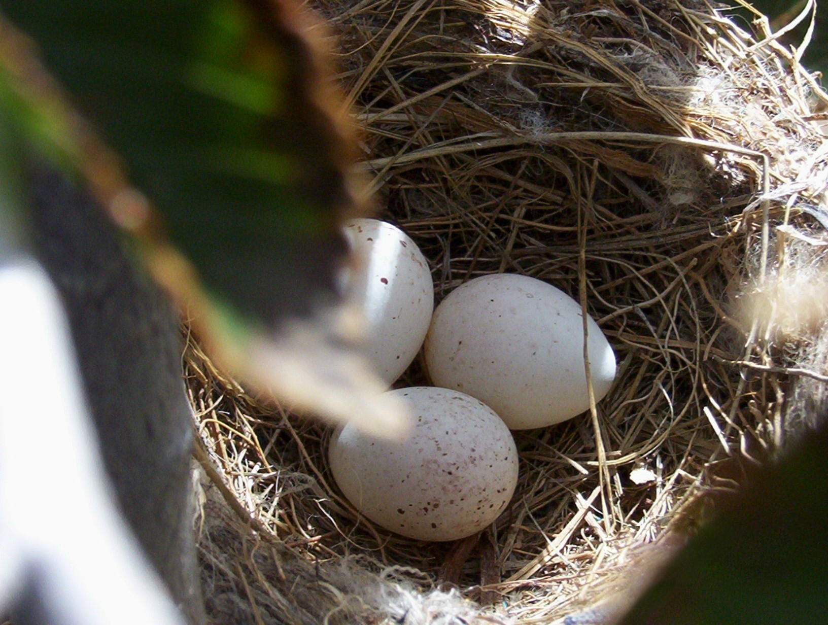 Black siskin eggs (Carduelis atrata) , Jujuy, Argentina.